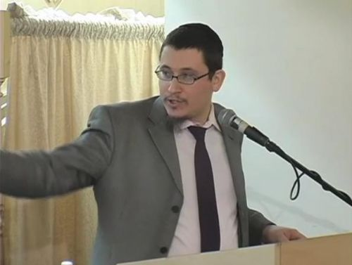 Federman at the Know-Your-Rights seminar